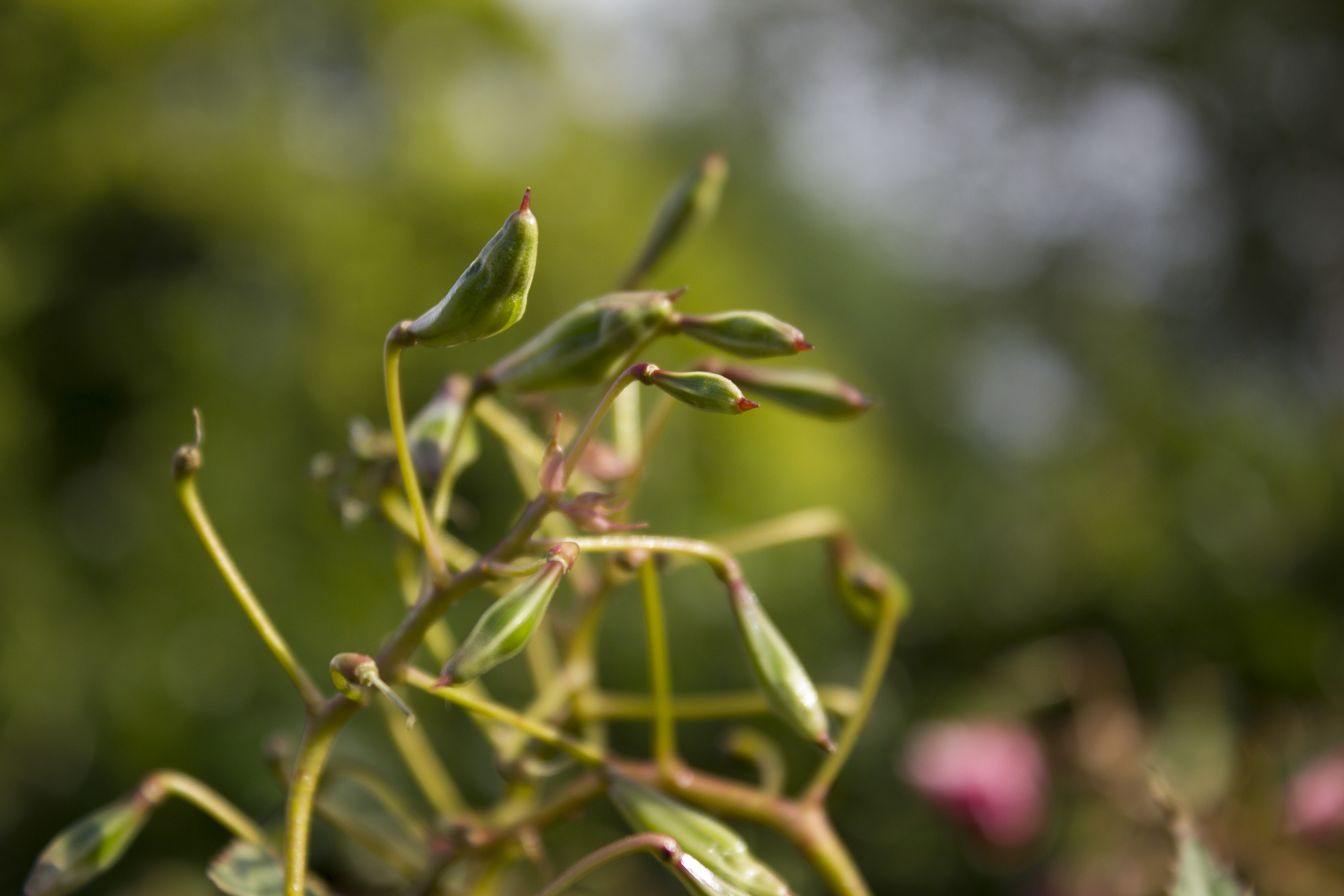 Fruits of Impatiens glandulifera